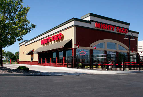 This is the Mighty Taco located at 2884 Ridge Road in West Seneca, NY